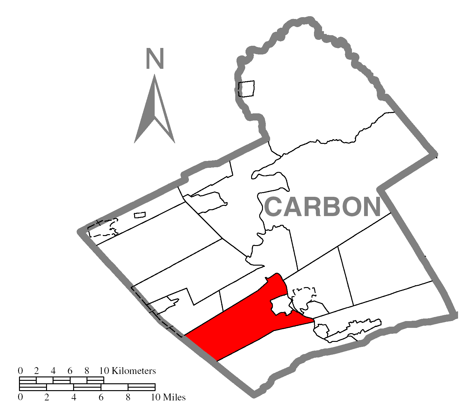 A map of Carbon County showing Mahoning Township, Pennsylvania (alternate) highlighted on the map.